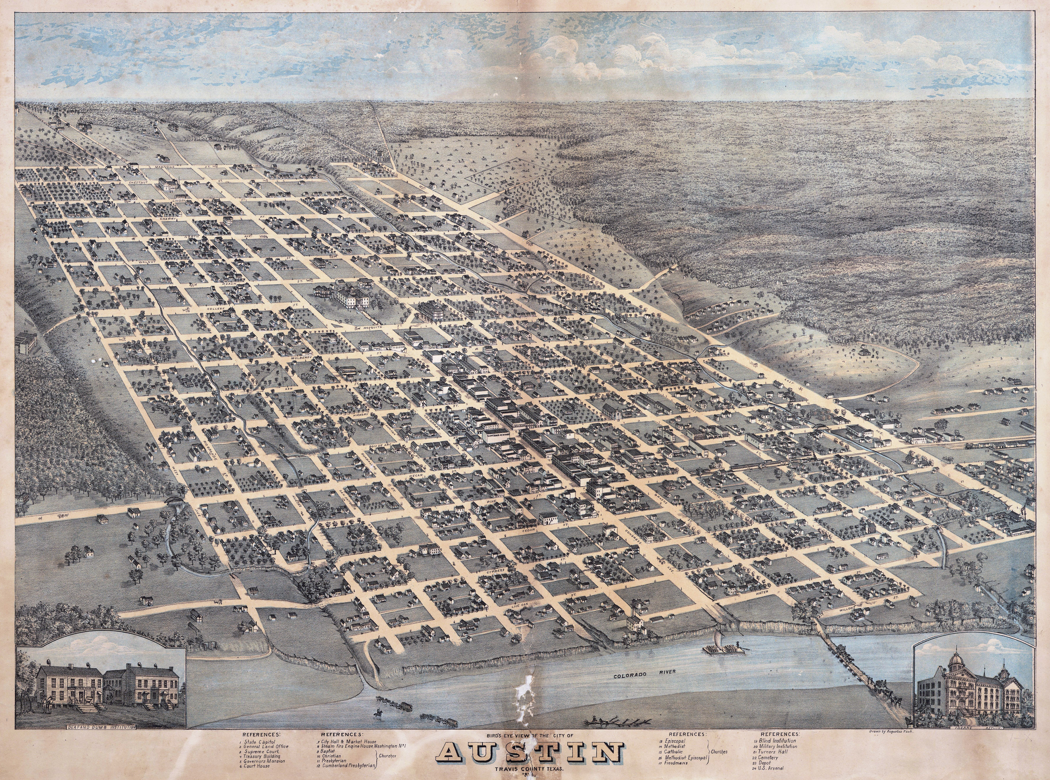 Version of Image:Old_map-Austin-1873.jpg with color enhancement, cropping, and reduction in pixel dimensions. Original upload comments on that image were:Austin, Texas in 1873. Bird's Eye View of the City of Austin Travis County Texas 1873, 1873. Lithograph (hand-colored), 19.7 x 28.1 in. Published by J. J. Stoner, Madison, Wis. Center for American History, The University of Texas at Austin. (The University of Texas didn't start being built until 10 years later.)